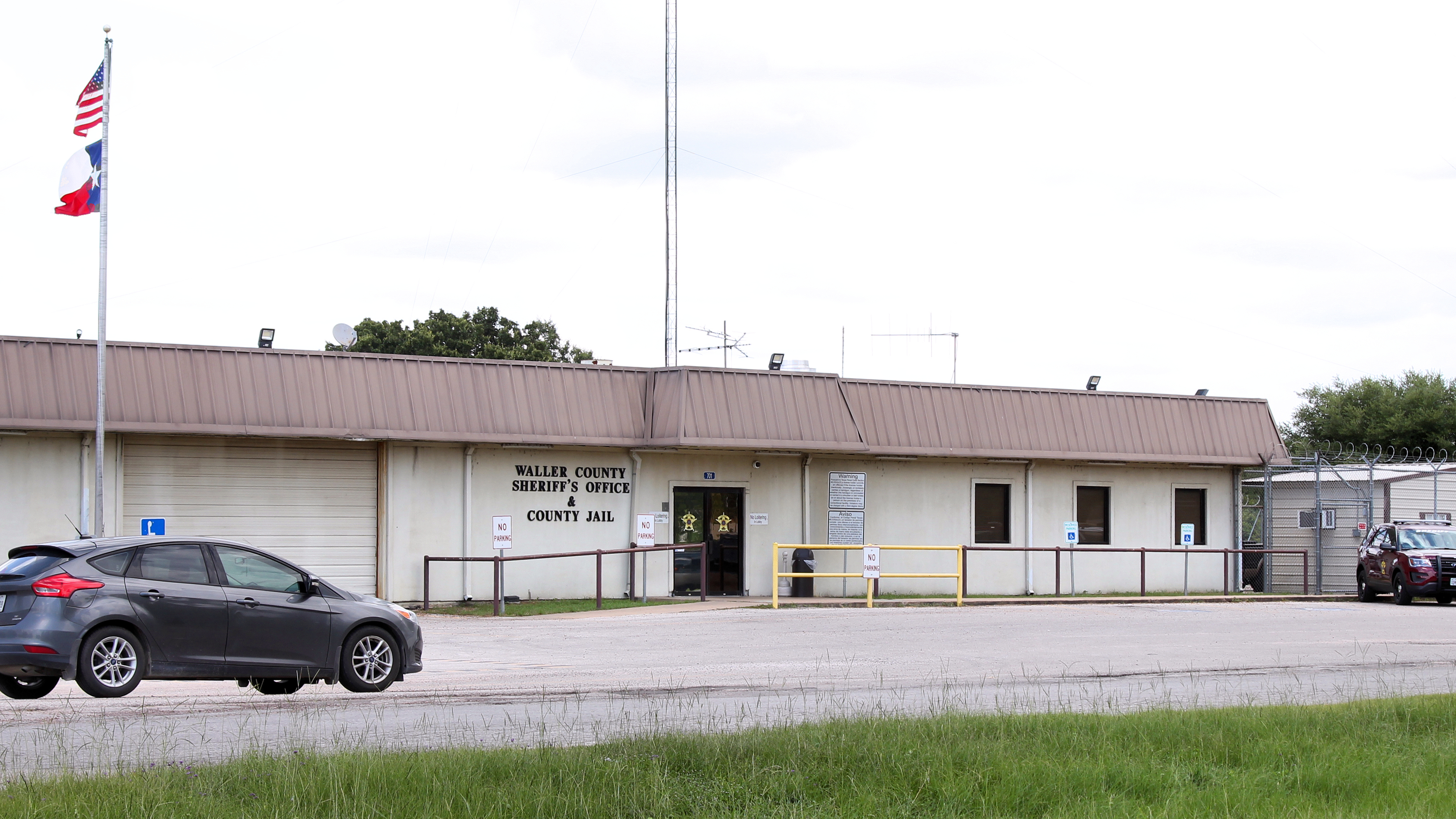 Waller County sheriff's office and county jail in Hempstead, Texas, United States.